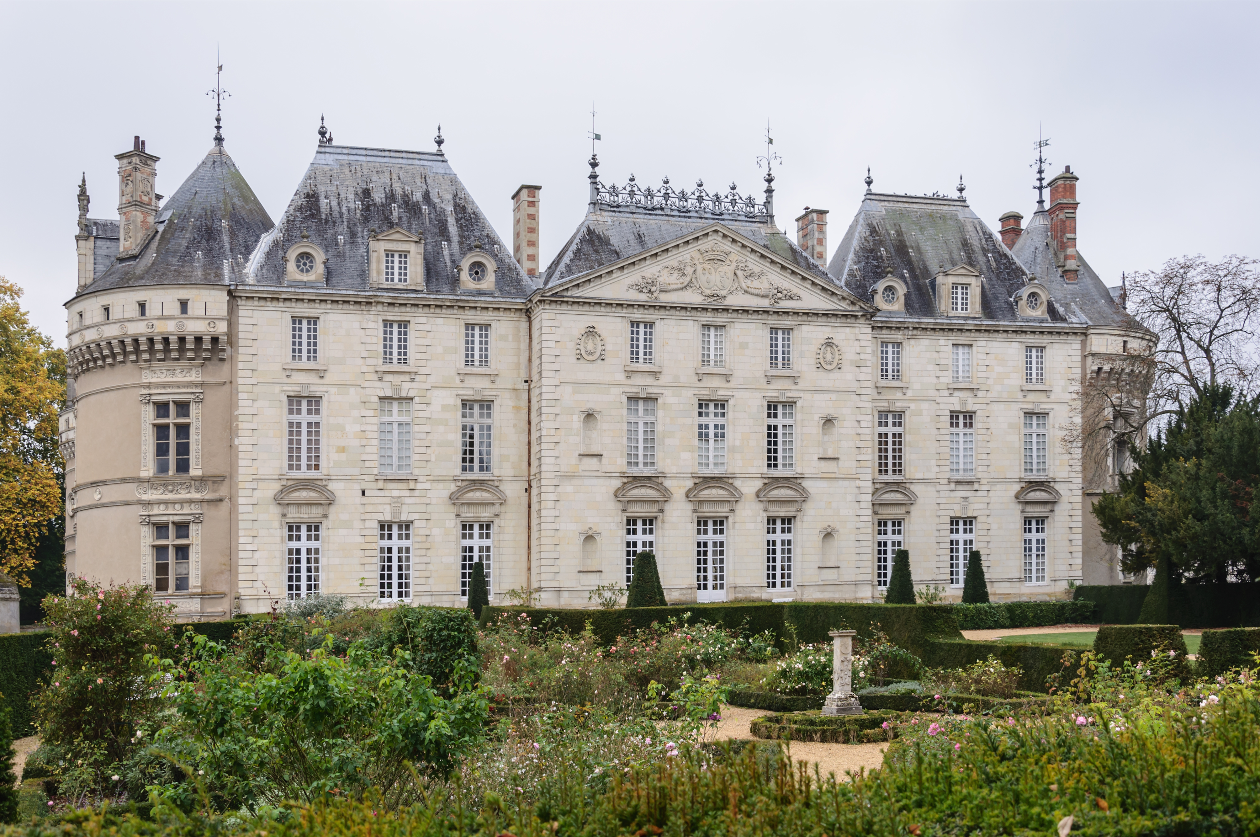 Le Lude Castle, in the Loir valley (Sarthe, France): the 18th-century east facade, looking onto the jardin de l’Éperon.